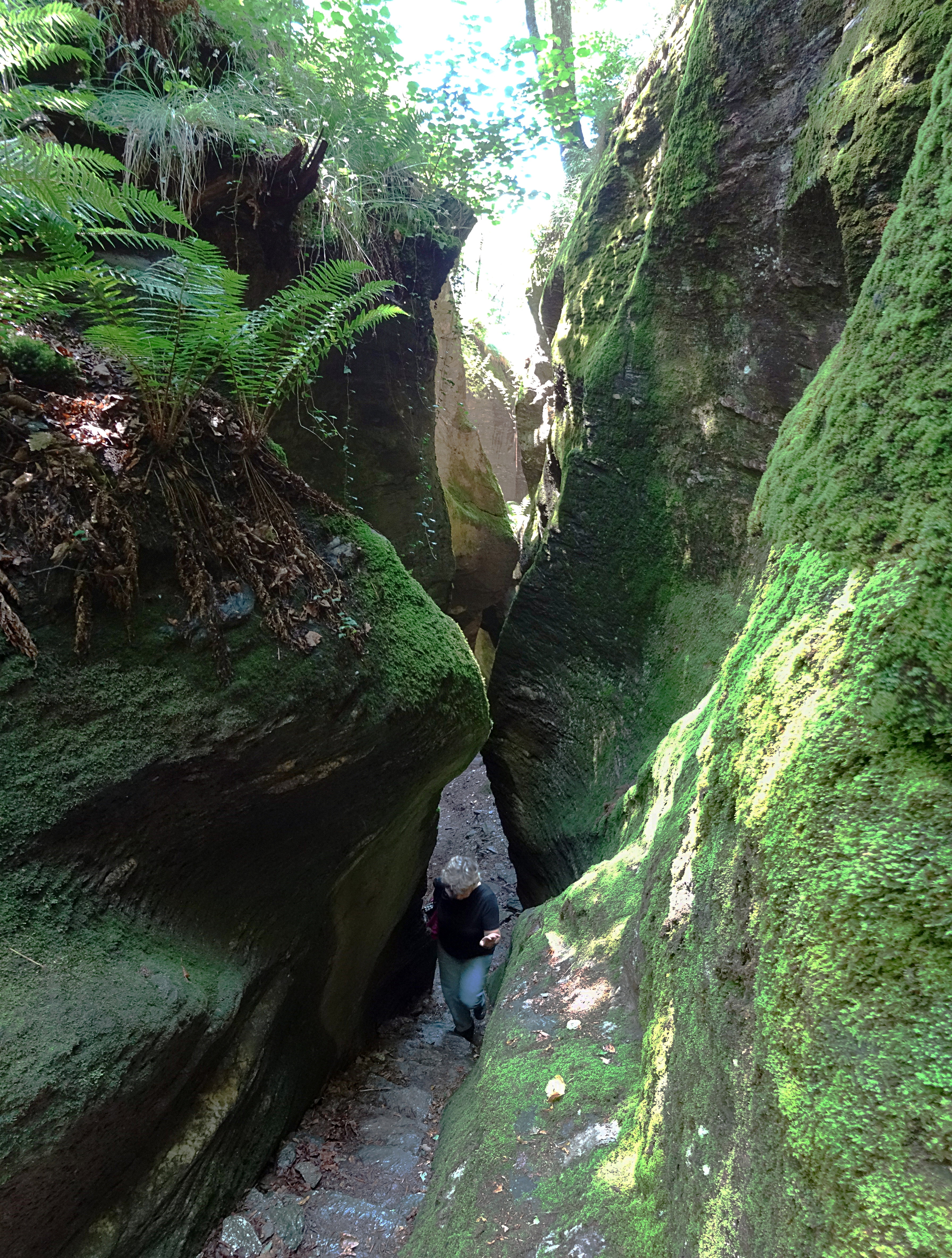 the green northern gorge of Uriezzo